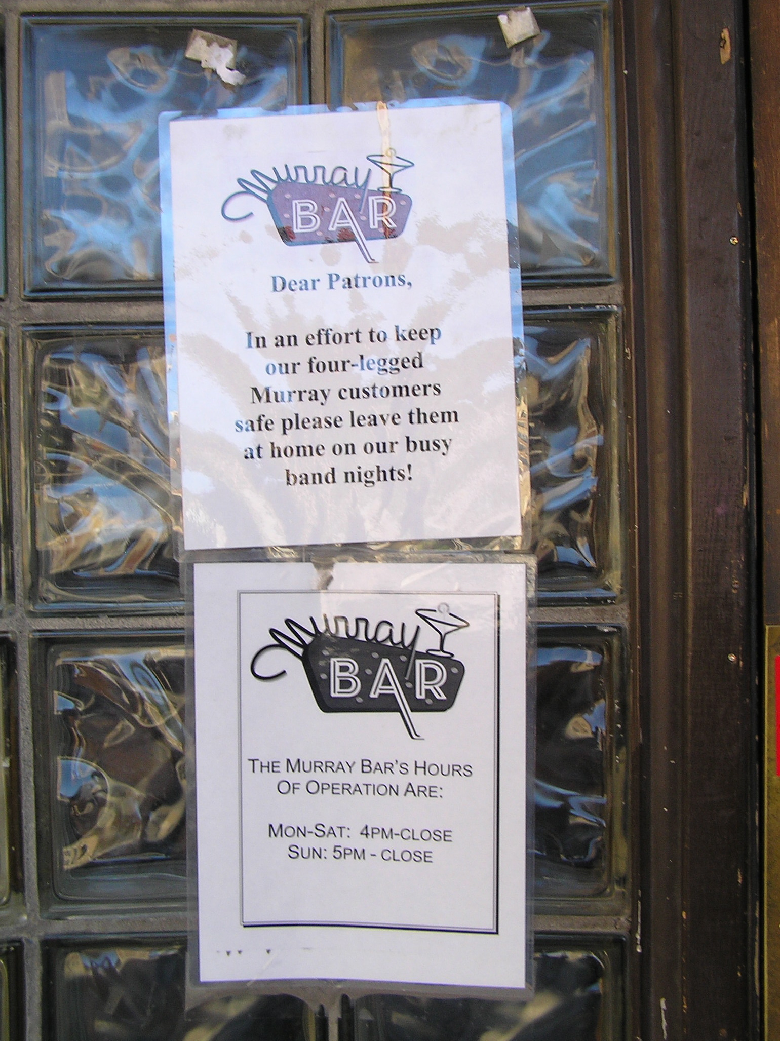 A sign outside the Murray Hotel Bar, Livingston, MT. Dogs are normally welcome in the Murray bar, but not always.